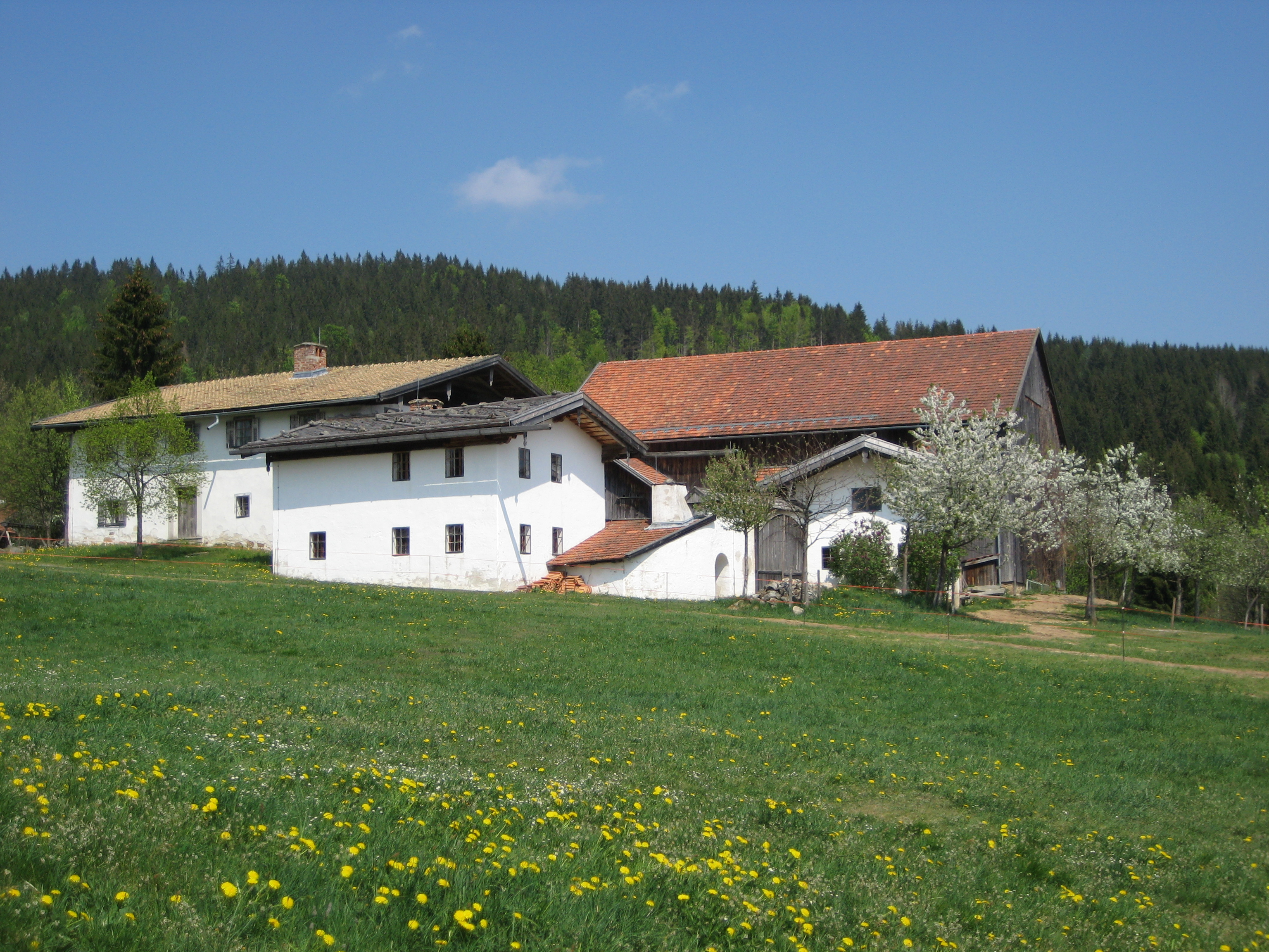 Country life museum Finsterau, Bavarian Forest